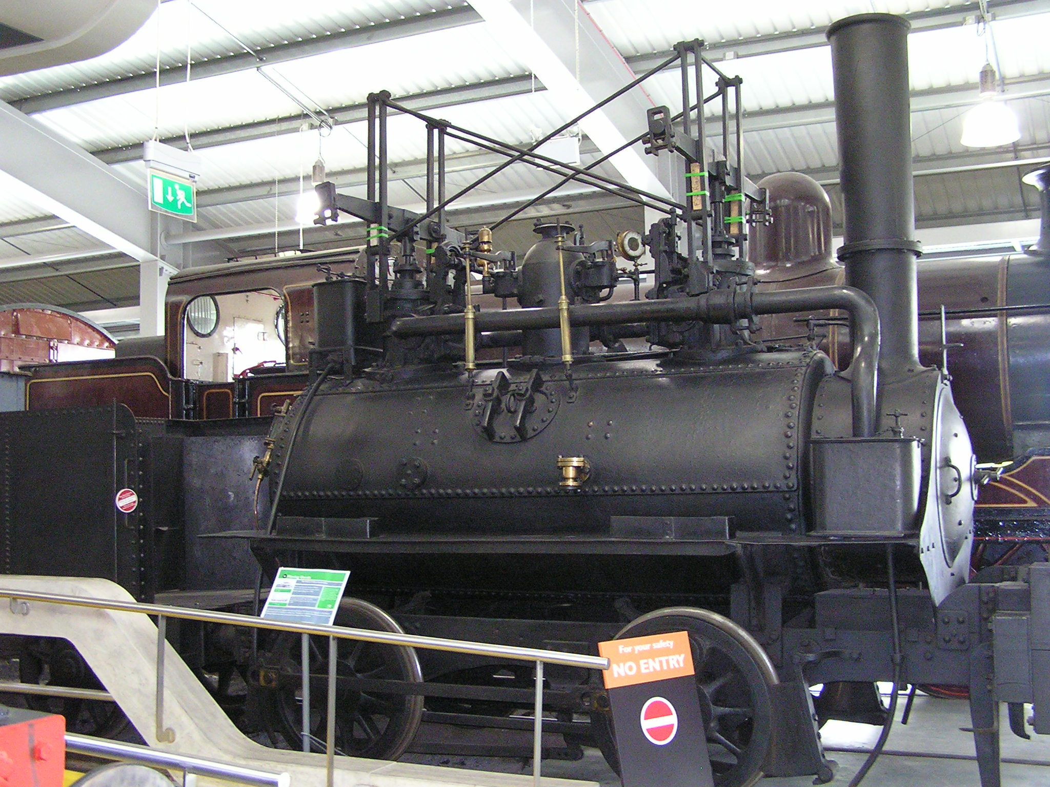 Hetton Colliery Lyons 0-4-0, fireman's side view